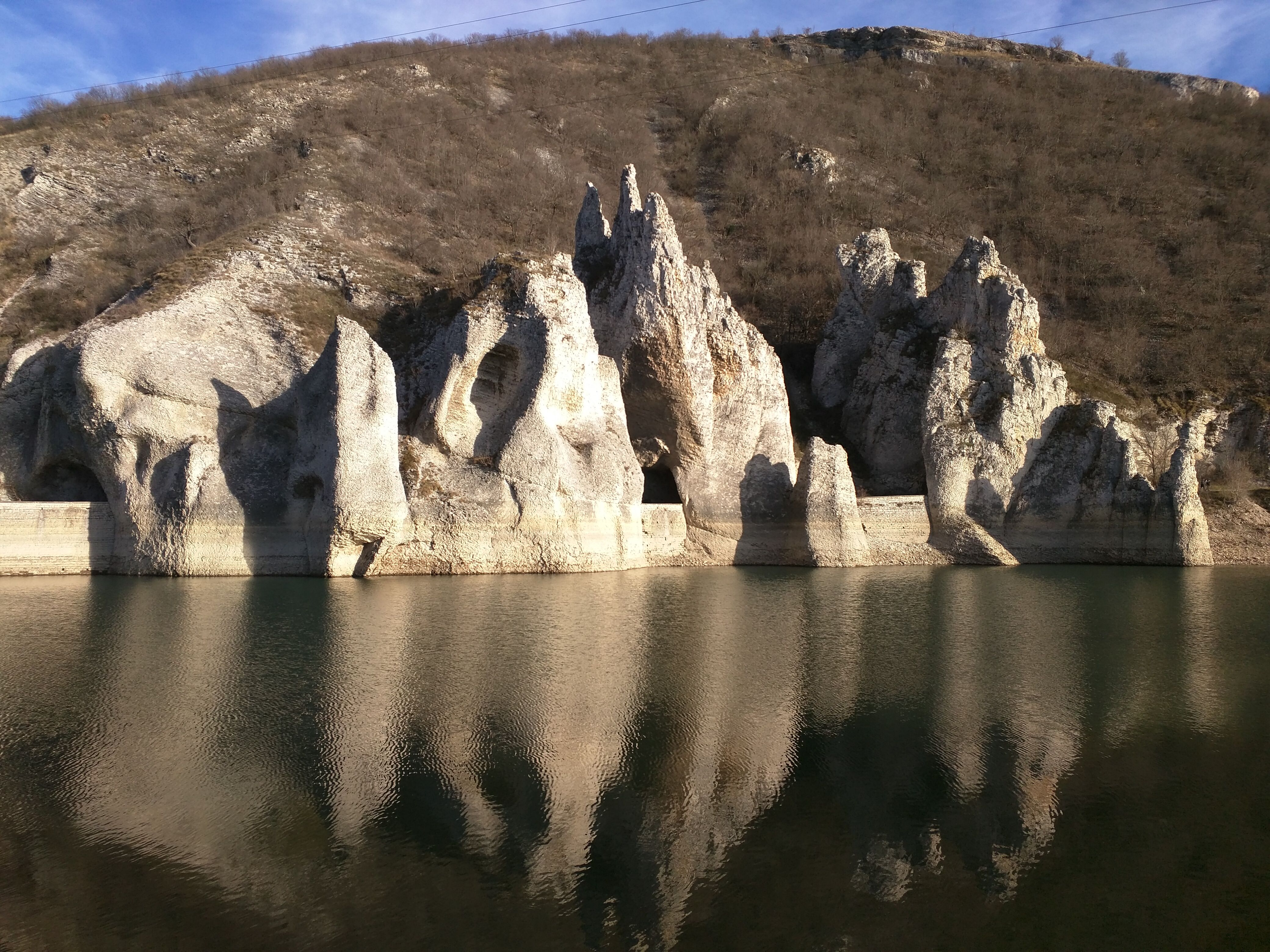 Varna Province, Dalgopol Municipality, dam Tsonevo, rock formations "The Wonderful Rocks"